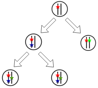 Subclones of Cancer Cells